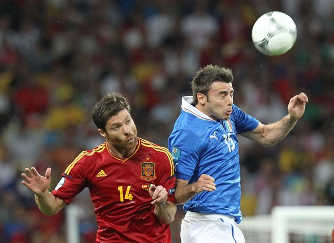 Xabi Alonso and Andrea Barzagli at Euro 2012 final Spain-Italy